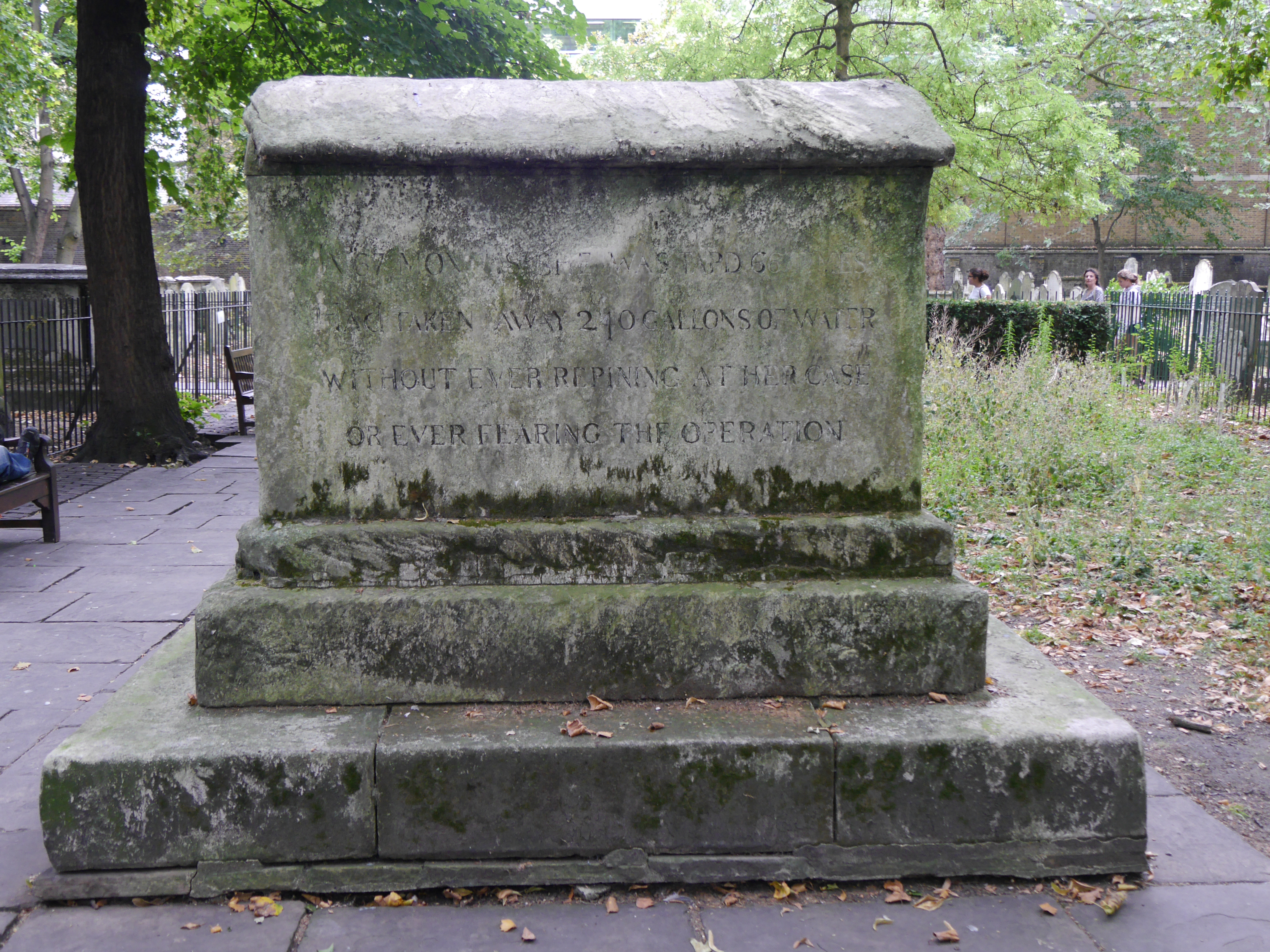 Bunhill Fields, London